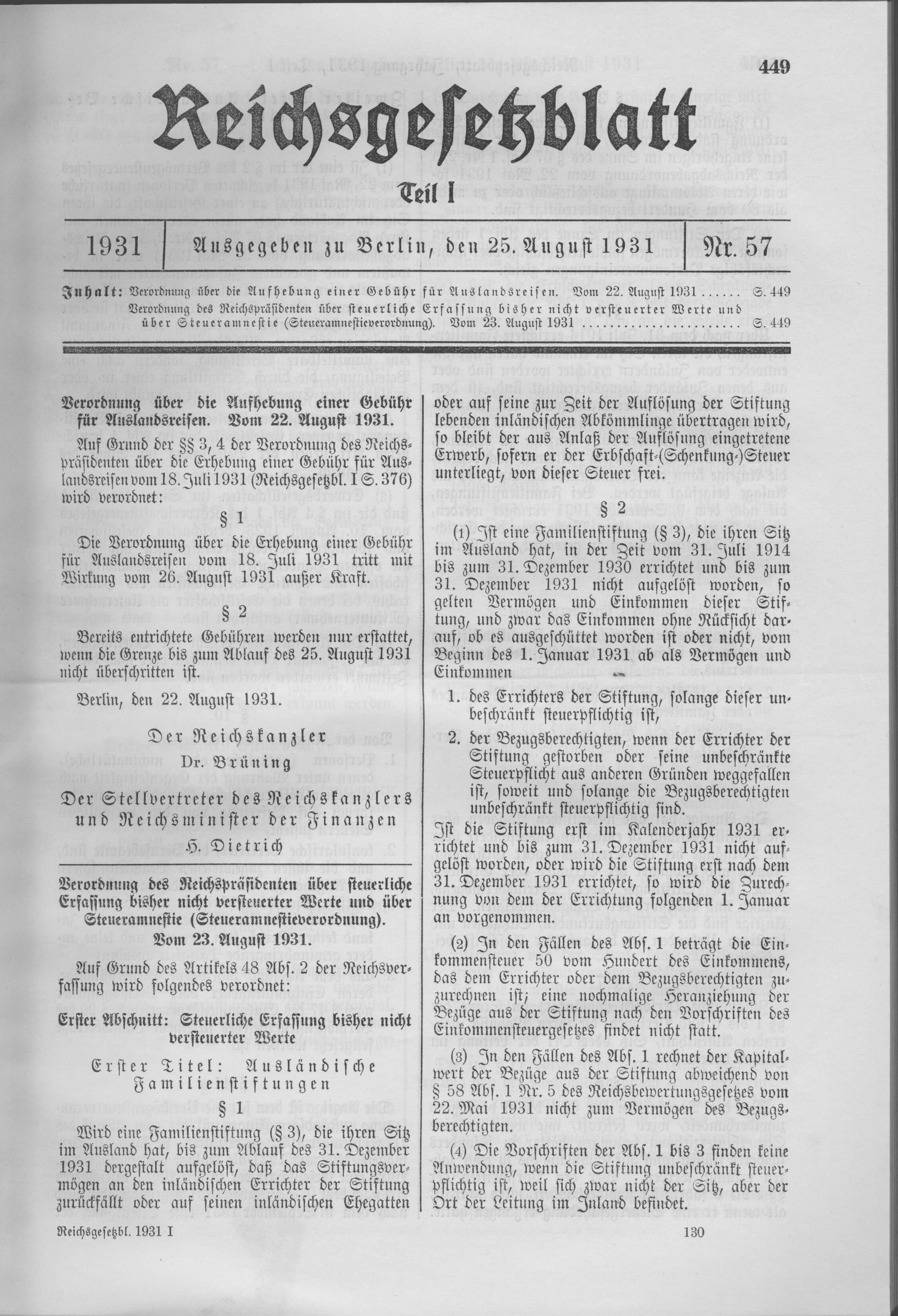 Scan from the Imperial Law Gazette of Germany, 1931, part 1